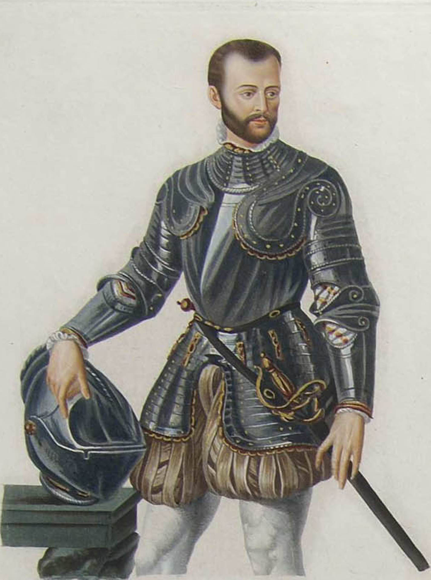 Alfonso II d'Este